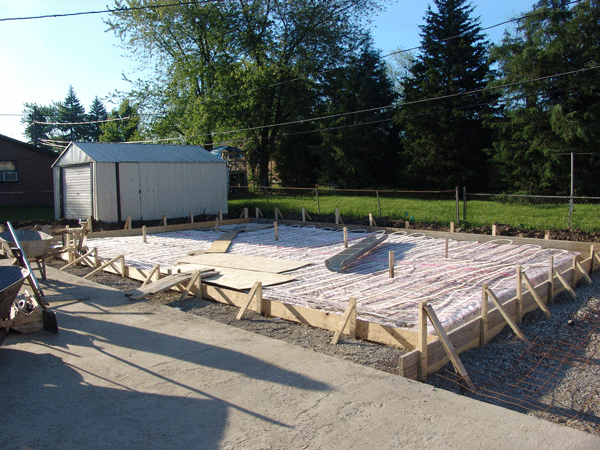 Radiant Floor Heating about to be covered with a concrete garage slab.